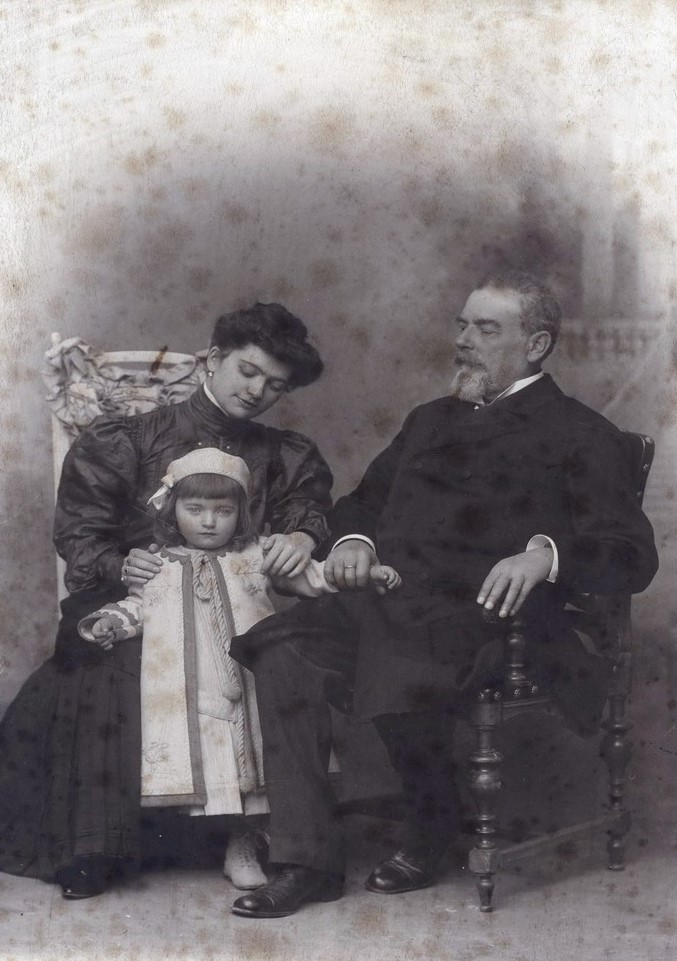 Dr Kazimir Gonsiorovski with family, probably with probably with a fraternity.